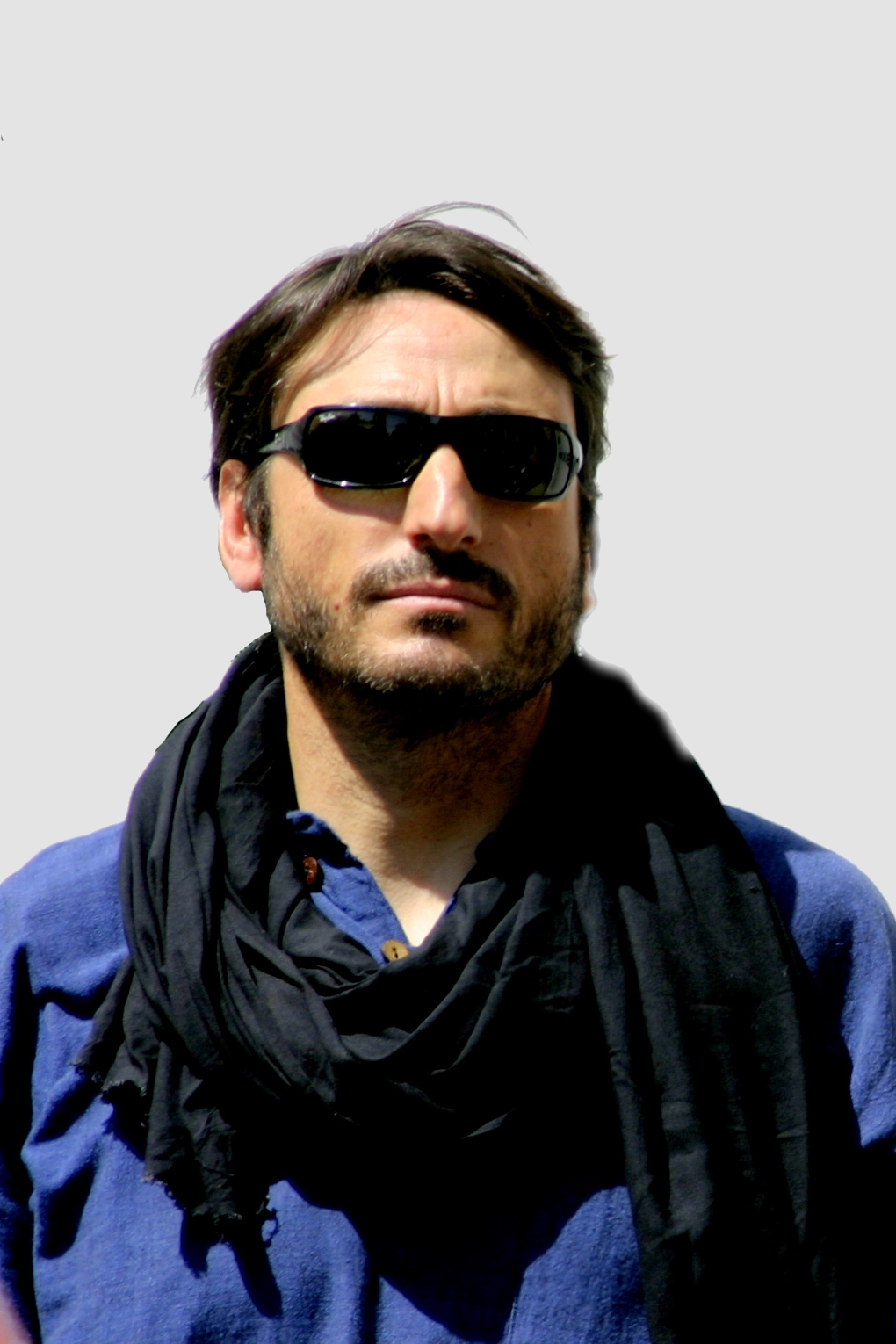 cropped and cleaned copy of another picture already in commons and used in the page of actor Carmelo Gomez